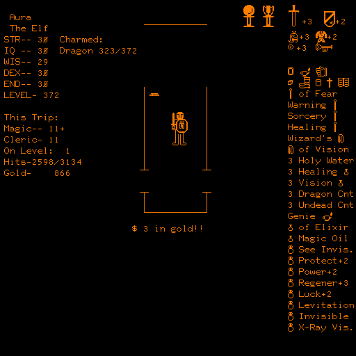 dnd (computer game) (1974) the oldest role playing video game still available. Only picture is pd, not the game.